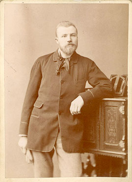 Rudolph Schnaubelt